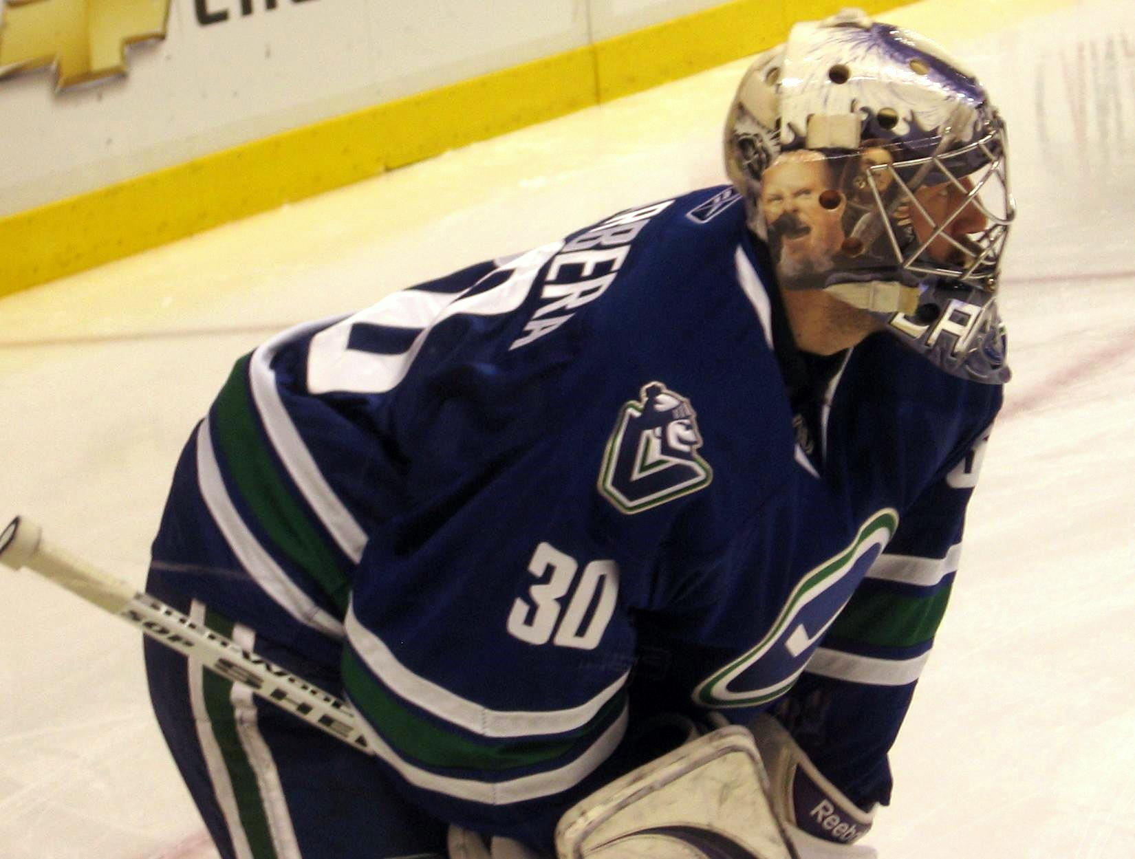 Jason LaBarbera of the Vancouver Canucks warming up at GM Place in Vancouver before playing the Columbus Blue Jackets on January 18, 2009.